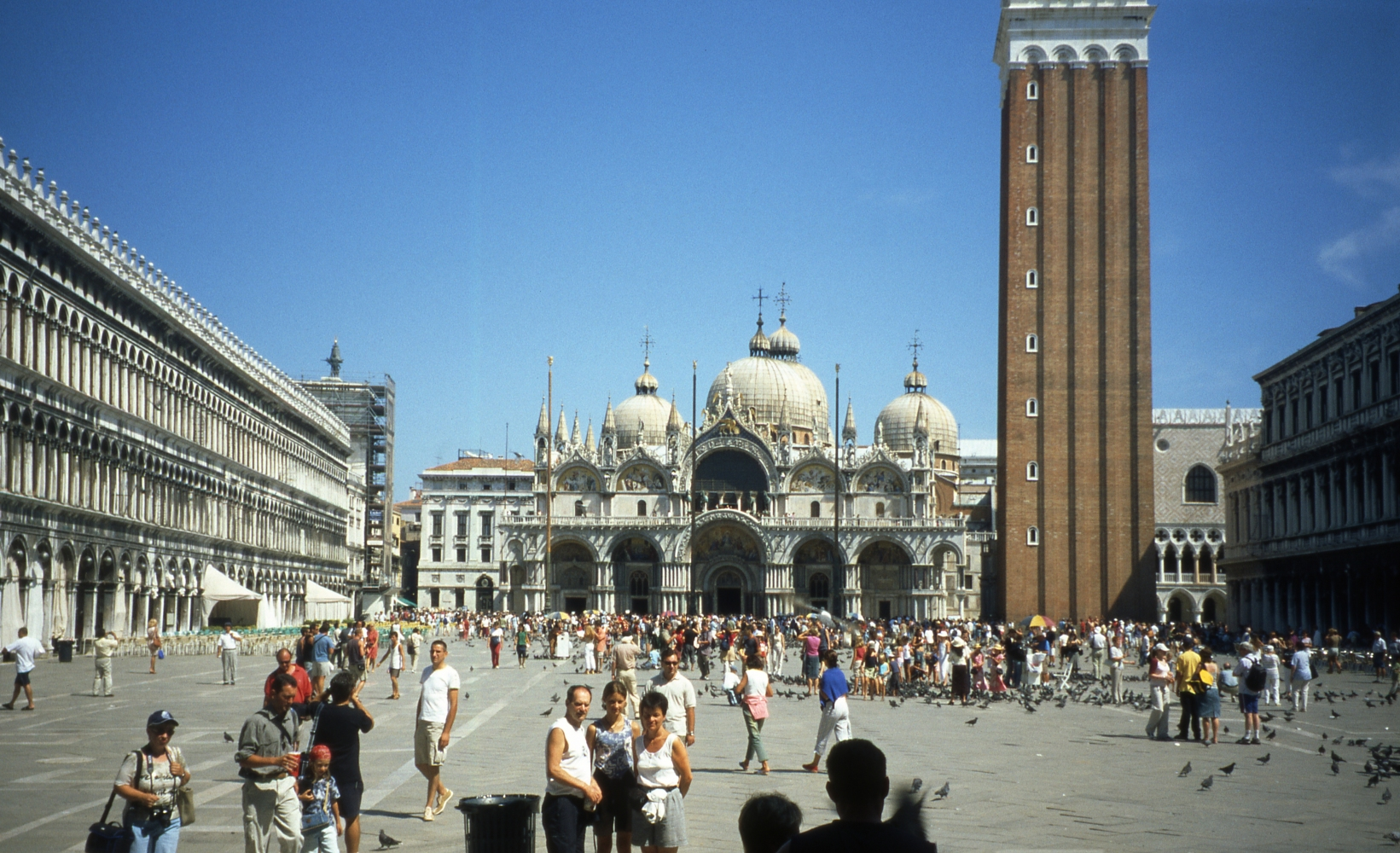 Piazza San Marco in Venice